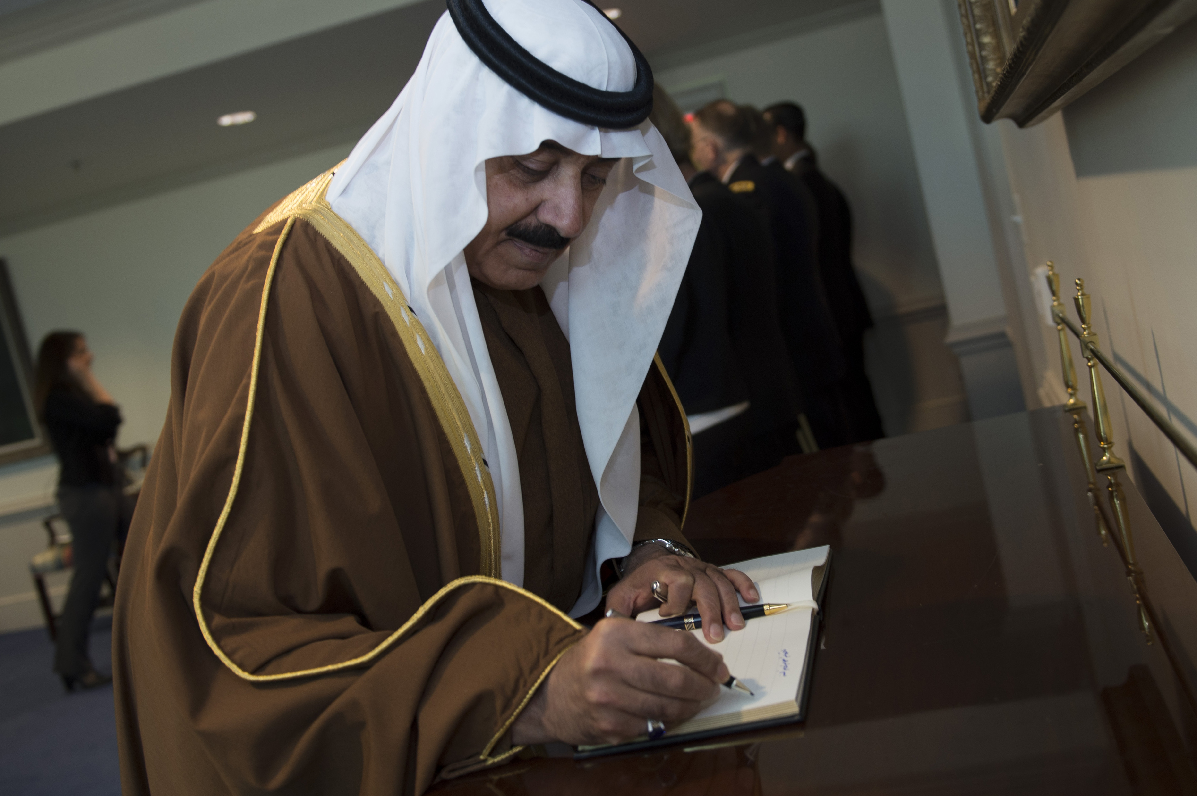 Minister of the National Guard of Saudi Arabia Prince Mitib bin Abdullah bin Abdul Aziz Al Saud signs the guest book as he arrives at the Pentagon in Washington D.C., to dicuss matter of mutual importance with Secretary of Defense Chuck Hagel, Nov. 21, 2014 (DoD photo by Master Sgt. Adrian Cadiz)(Released) Unit: Defense Imagery Management Operations Center DVIDS Tags: Department of Defense; DoD; Pentagon; Secretary of Defense; SECDEF; Chuck Hagel